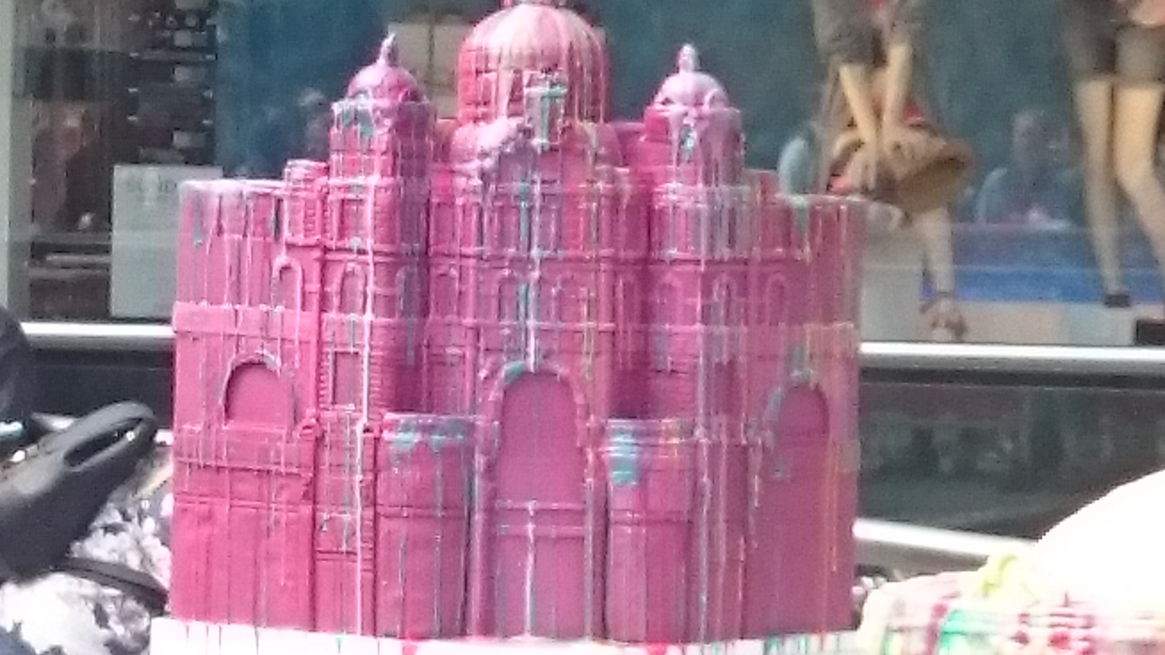 In 2016, the 1904 hall was celebrated in cake.